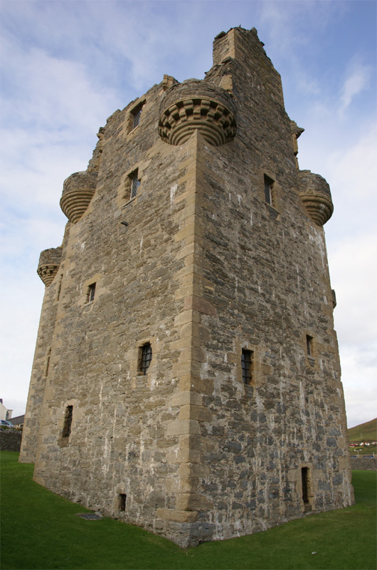 Scalloway Castle, Scalloway, Shetland, Scotland